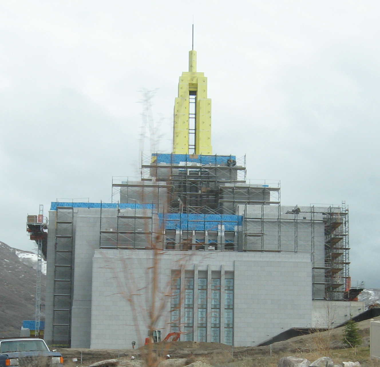 The Draper Utah Temple of The Church of Jesus Christ of Latter-day Saints, Draper, Utah, USA. Cropped for use in Infobox.